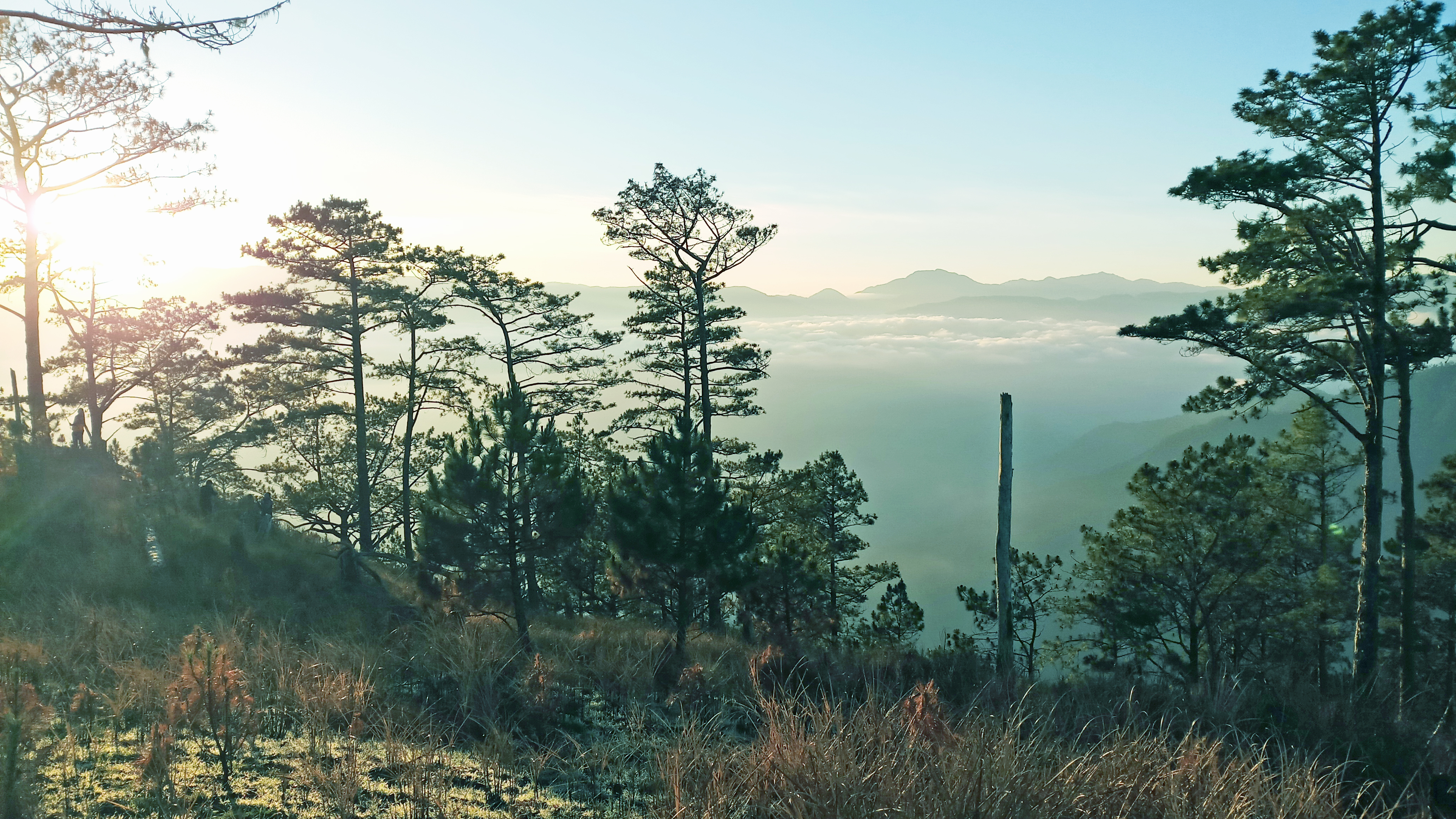 Sunrise of the summit Mt. Namindaraan the tallest part of the Bessang Pass Natural Monument